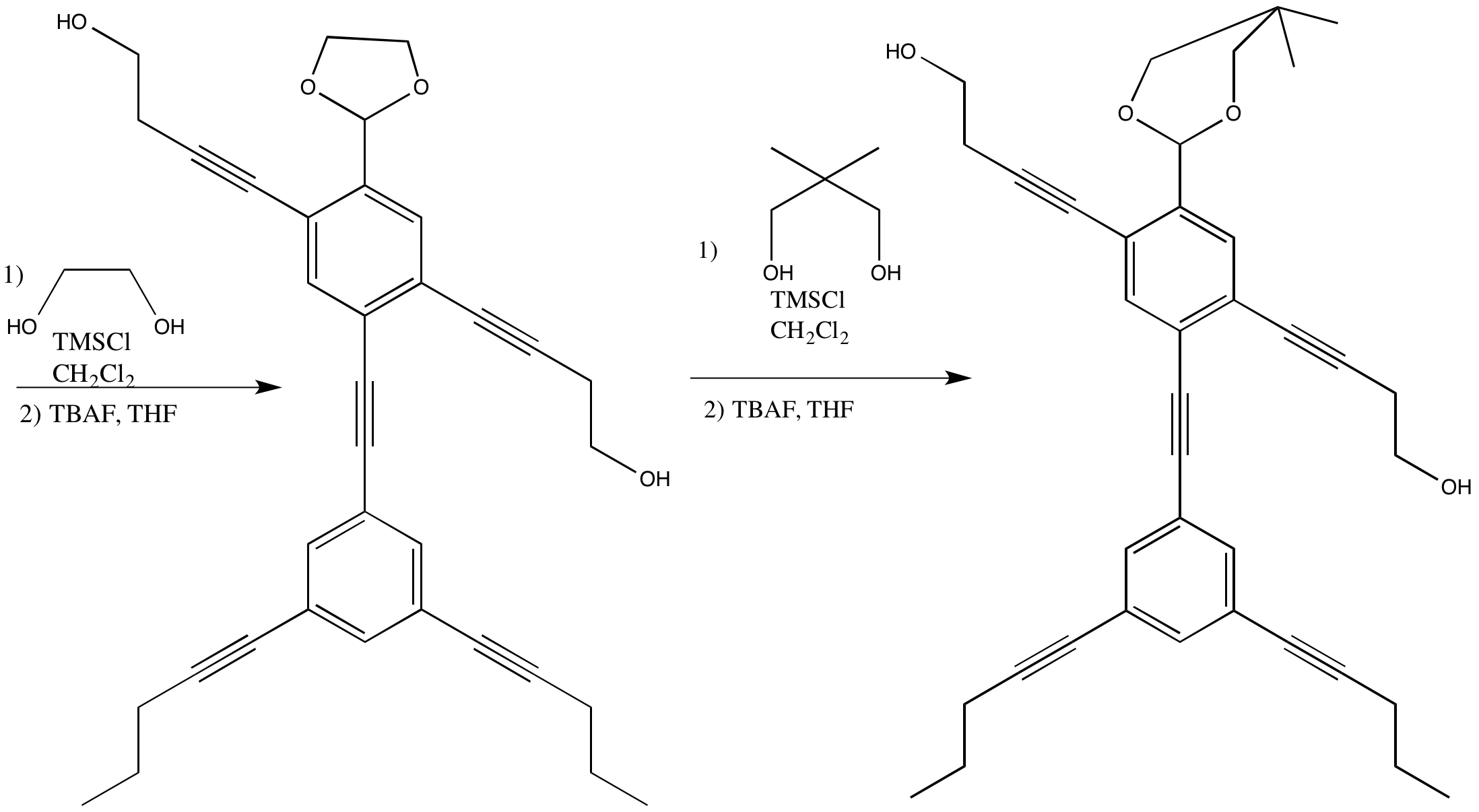 Nationputian chain 2